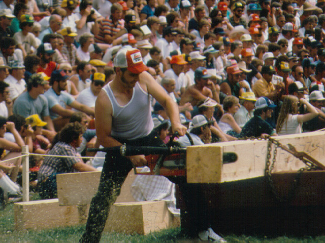 A chainsaw event and onlookers at the Woodsmen's Show at Cherry Springs State Park in West Branch Township, Potter County, Pennsylvania, United States